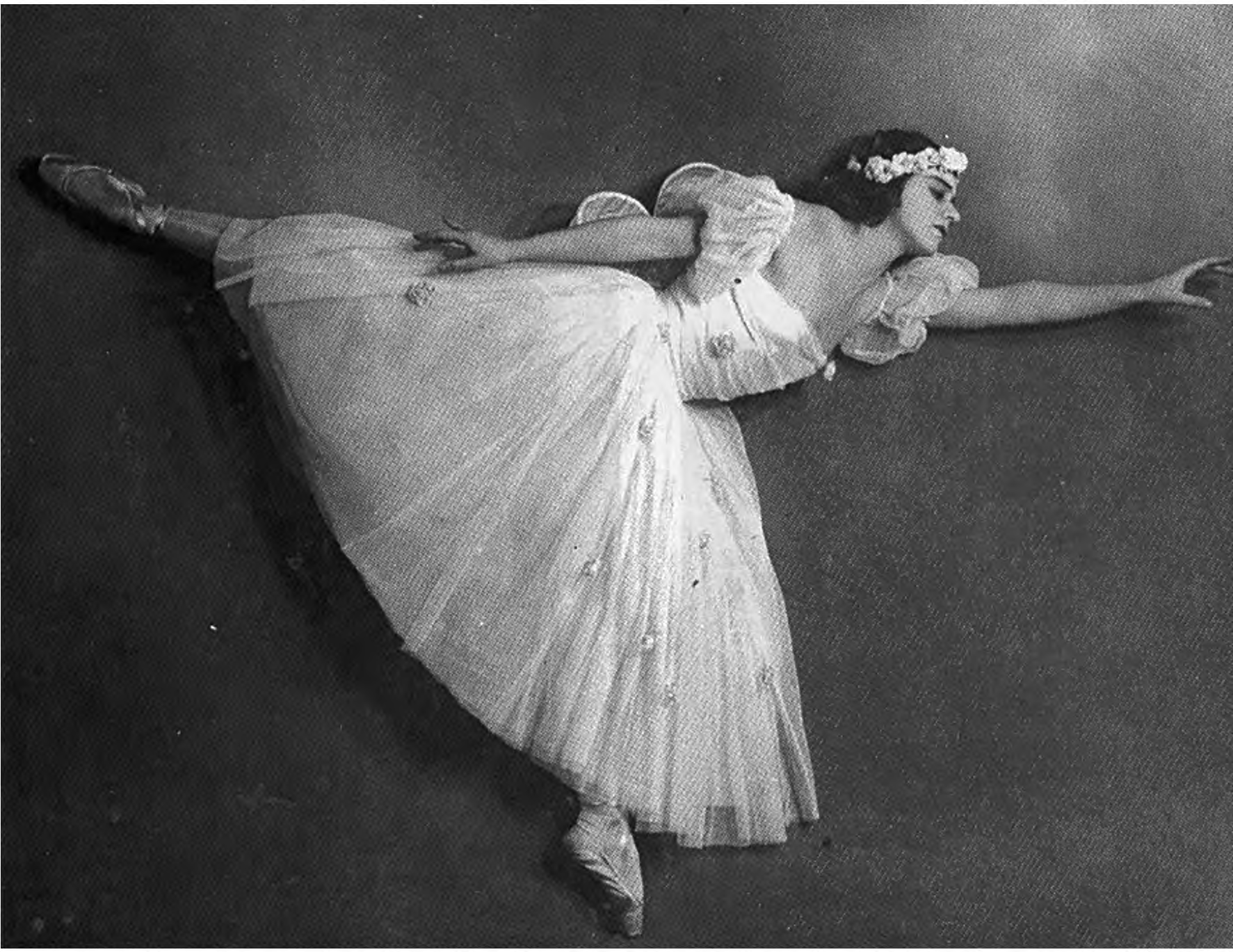 Olga Sapphire, in "Giselle". Tokyo. 1936.